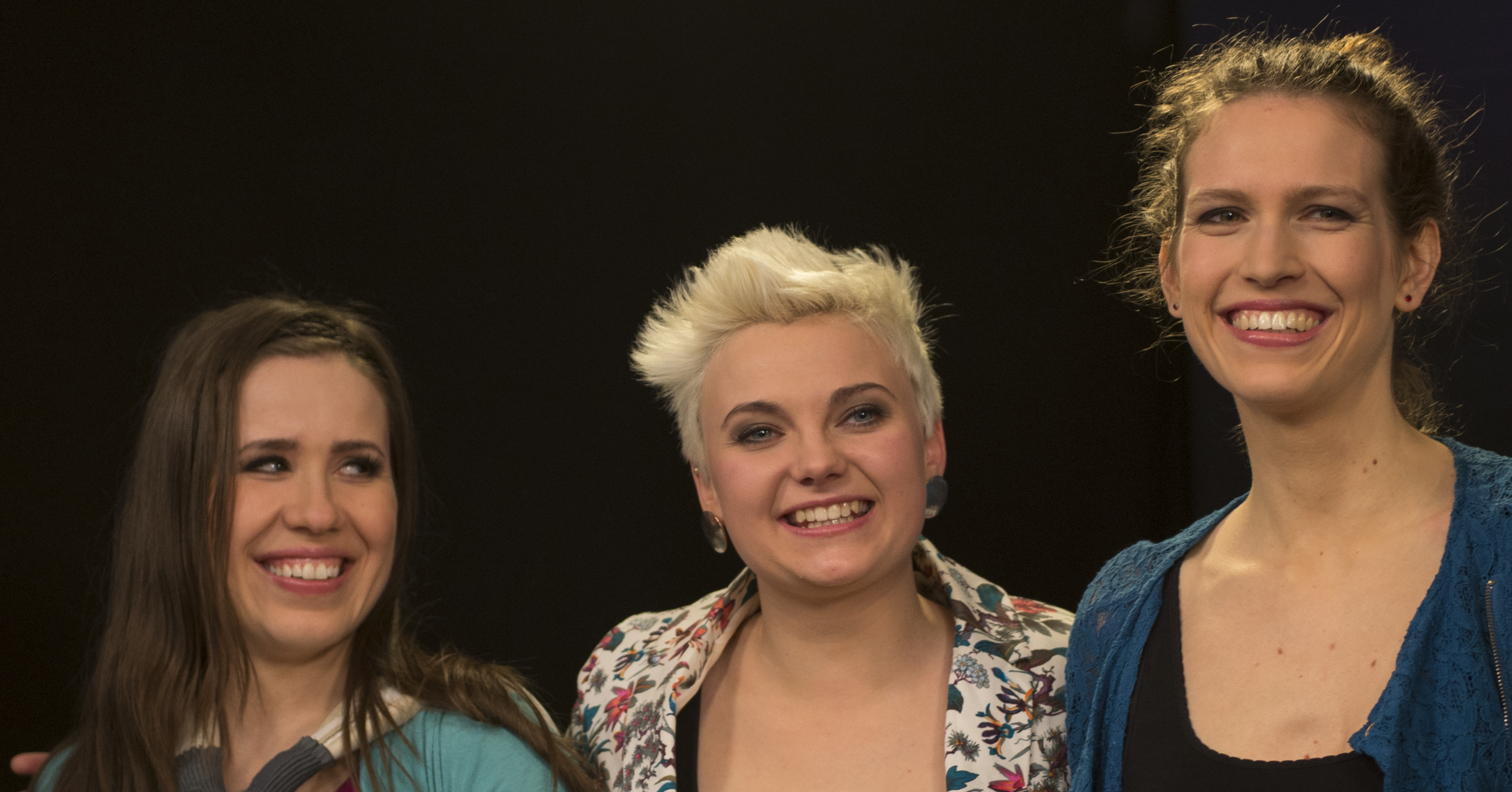 Elaiza at a Meet & Greet during the Eurovision Song Contest 2014 Copenhagen. (Help translate this text)